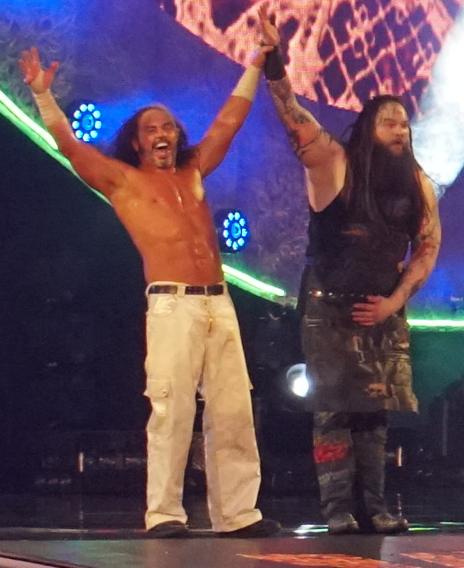 NOLA 2018 - WWE Wrestlemania 34 - Andre The Giant Memorial Battle Royale Matt Hardy def. Aiden English, Apollo, Baron Corbin, Bo Dallas, Chad Gable, Curt Hawkins, Curtis Axel, Dash Wilder, Dolph Ziggler, Fandango, Goldust, Heath Slater, Kane, Karl Anderson, Konnor, Luke Gallows, Mike Kanellis, Mojo Rawley, Primo, R-Truth, Rhyno, Scott Dawson, Shelton Benjamin, Sin Cara, Titus O'Neil, Tye Dillinger, Tyler Breeze, Viktor, Zack Ryder (in 16:35) Type of match : Andre The Giant Memorial Battle Royale Rating : *1/2 Info on the match : dark commentator: Jim Ross commentator: Jerry Lawler ( Deux semaines a Nola pour la ville et pour WWE Wrestlemania XXXIV Two weeks Nola for the city and for WWE Wrestlemania XXXIV )